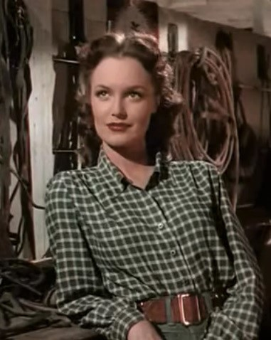 Dorothy Hart in Gunfighters - cropped screenshot